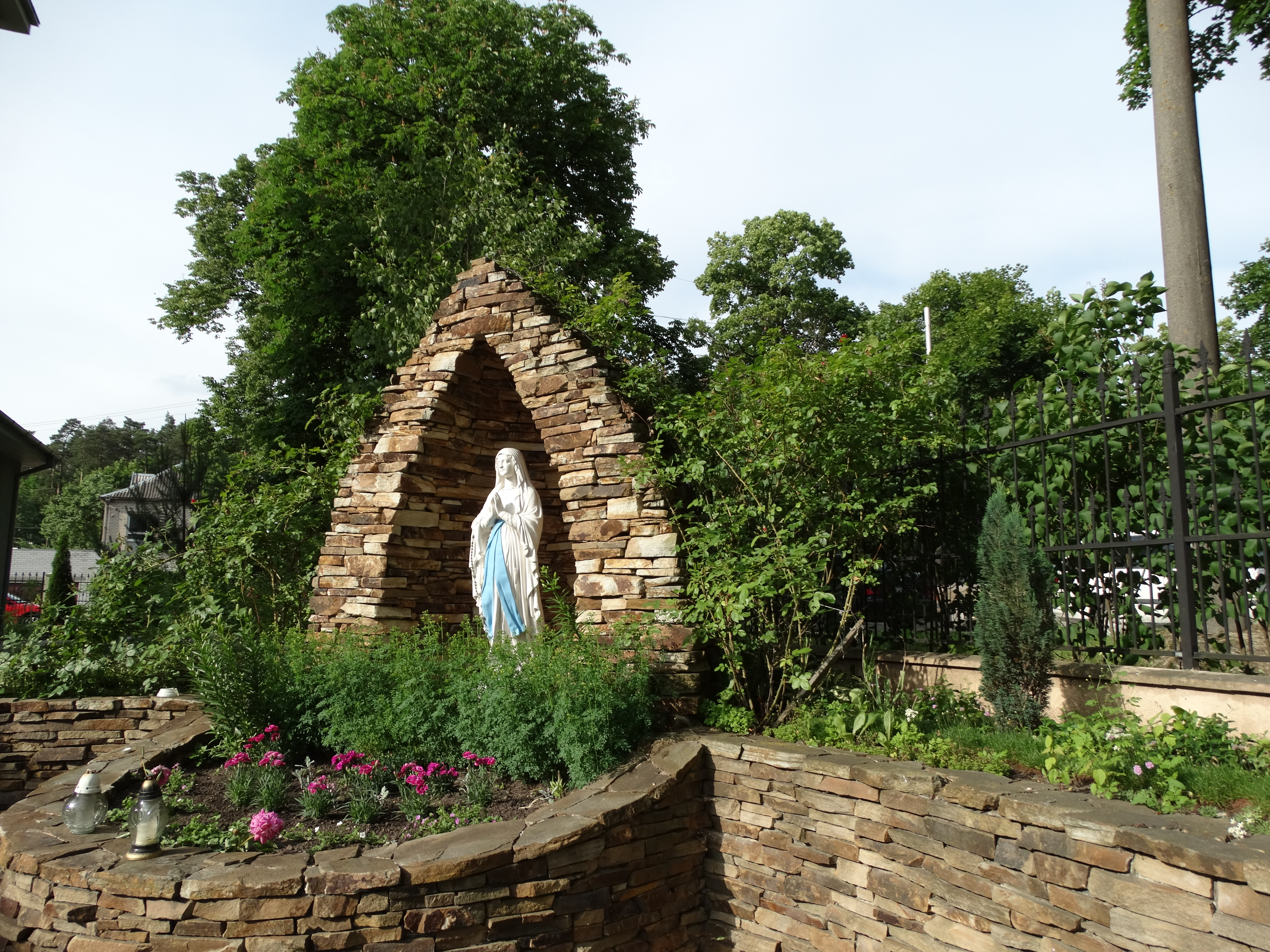 Chapel in Panemunė, statue of Mary, Kaunas, Lithuania